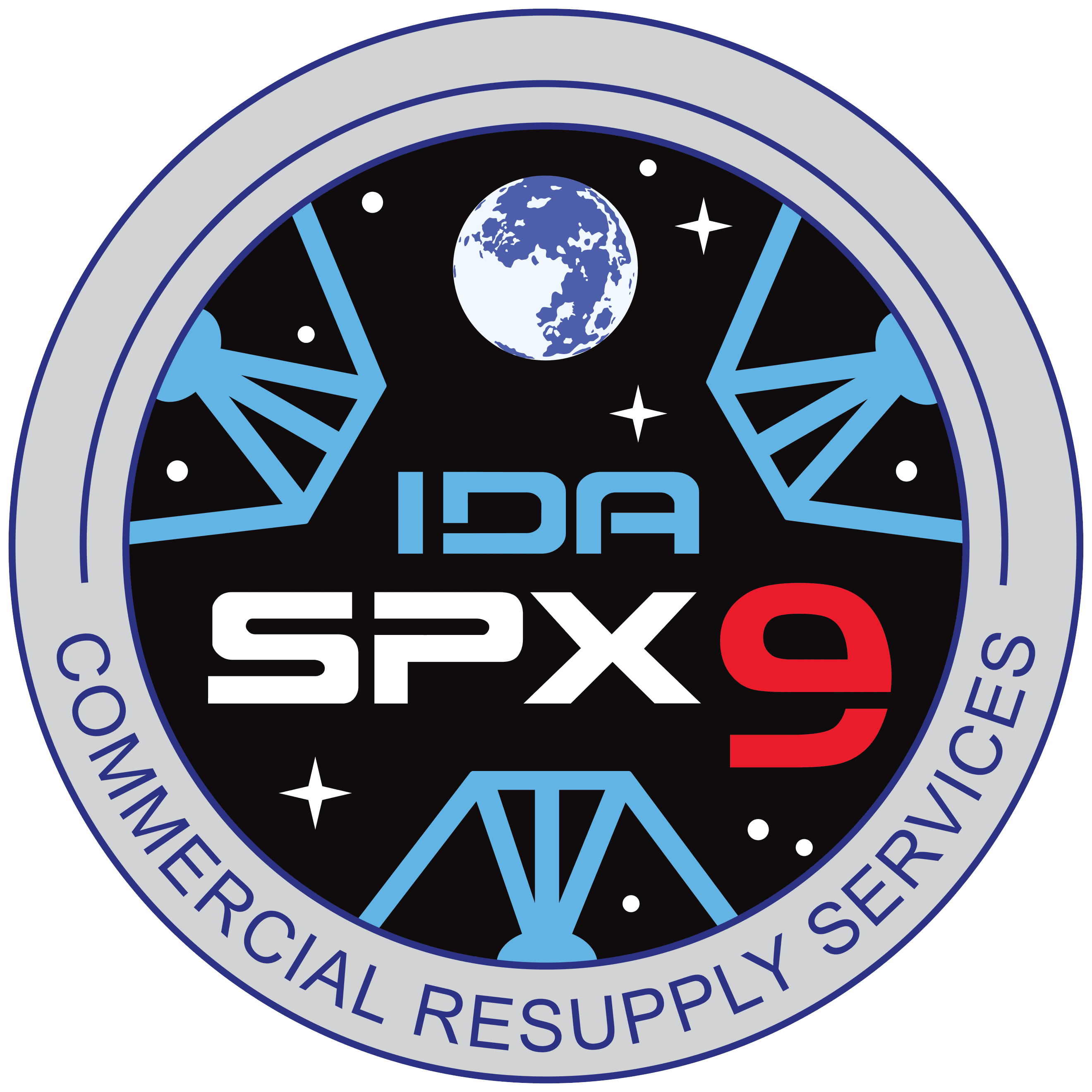 NASA's insignia for the ninth Commercial Resupply Services flight to the ISS, which will be taking up the International Docking Adaptor-2.